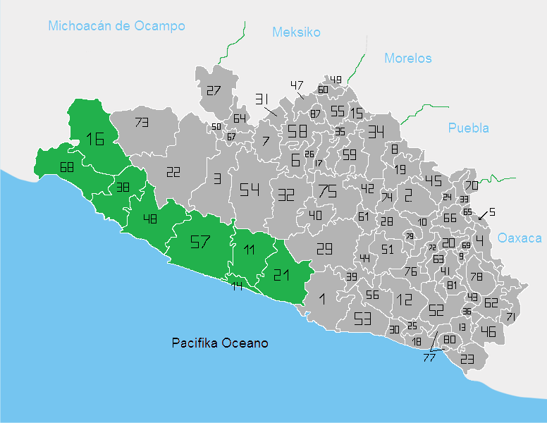 locator map of the region "Costa Grande" in the mexican state Guerrero